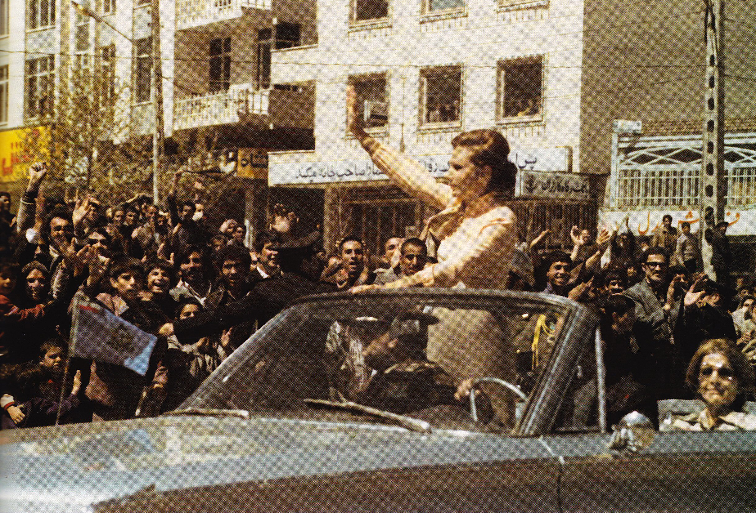 Shahbanu Farah Pahlavi visits Kermanshah, Iran